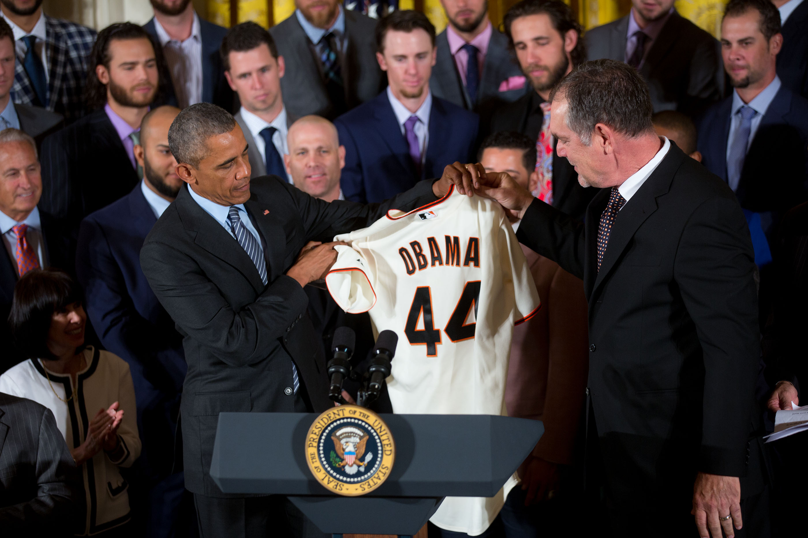 Giants Manager Bruce Bochy presents President Barack Obama with a baseball jersey during an event to welcome the World Series Champion San Francisco Giants to the White House to honor the team and their 2014 World Series victory, in the East Room, June 4, 2015. (Official White House Photo by Lawrence Jackson)